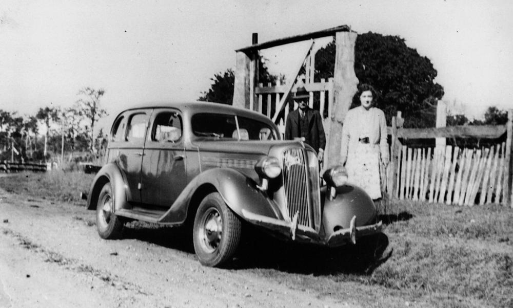 G. P. Campbell with his daughter, Morag with a Graham Paige, 1937. A 1937 Graham Crusader with a 6 cylinder, 21.6 h.p. engine. Body designed and built by Holden. Graham USA product by Graham-Paige Corporation.